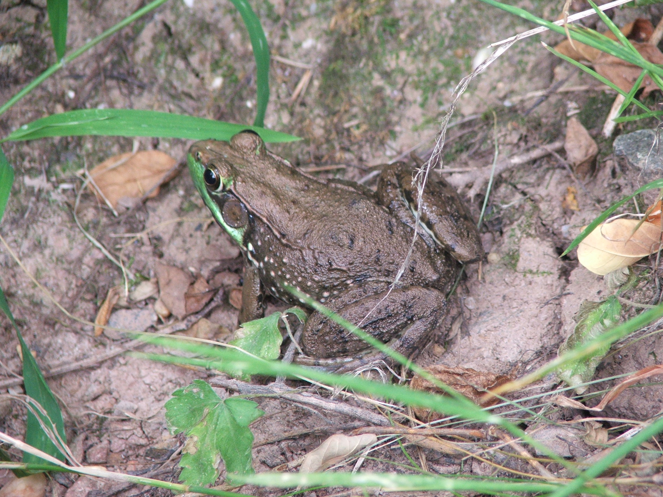 Large bronze frog top view